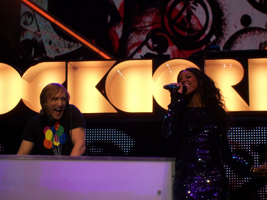 David Guetta and Kelly Rowland Live - Orange Rockcorps London 2009